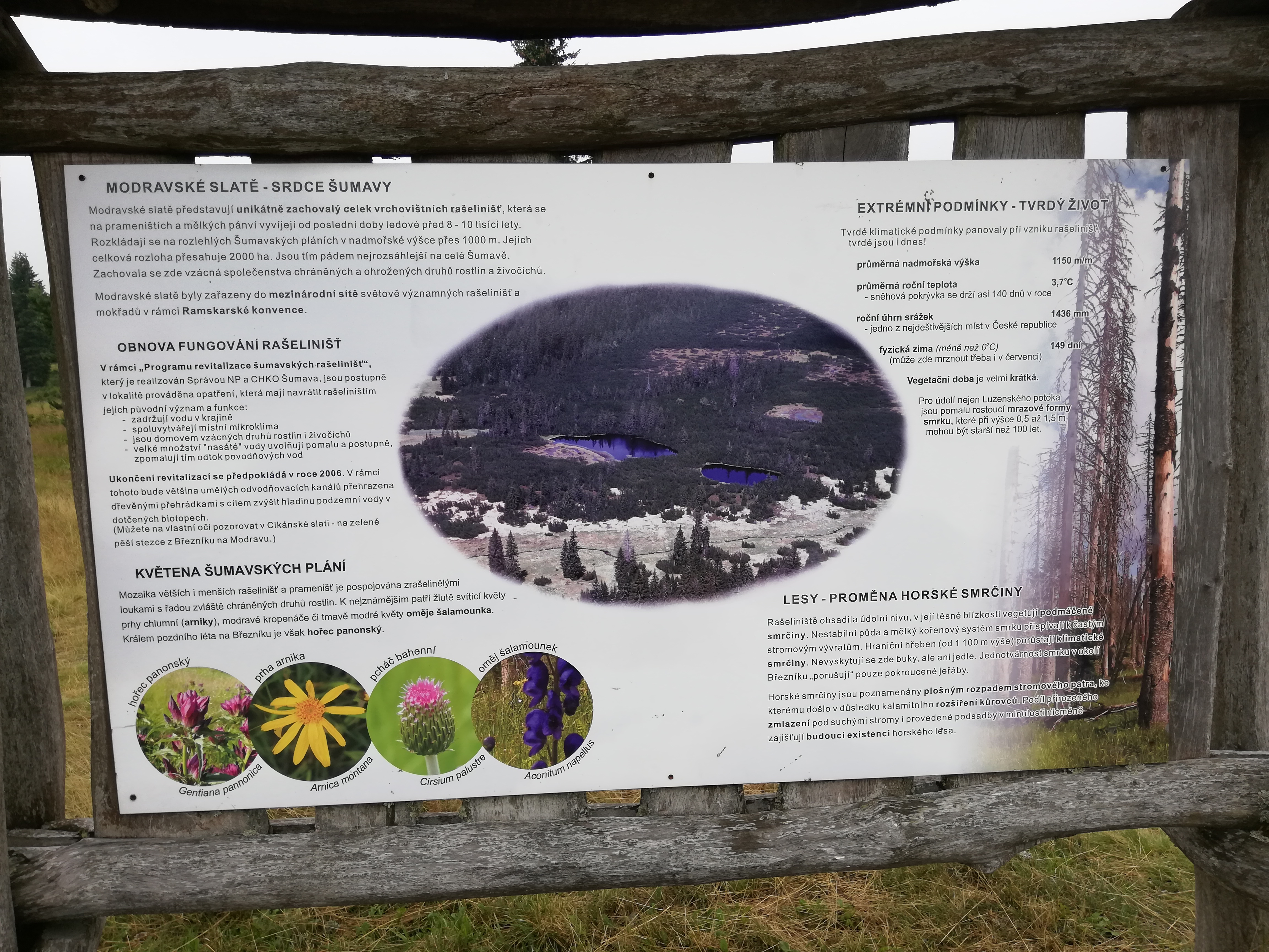 Information board (with the title: “Modrava wetlands - Heart of the Bohemian Forest”) located at the beginning of a closed path through the Luzen Valley on the Czech side near Březník (Šumava, Czech Republic).